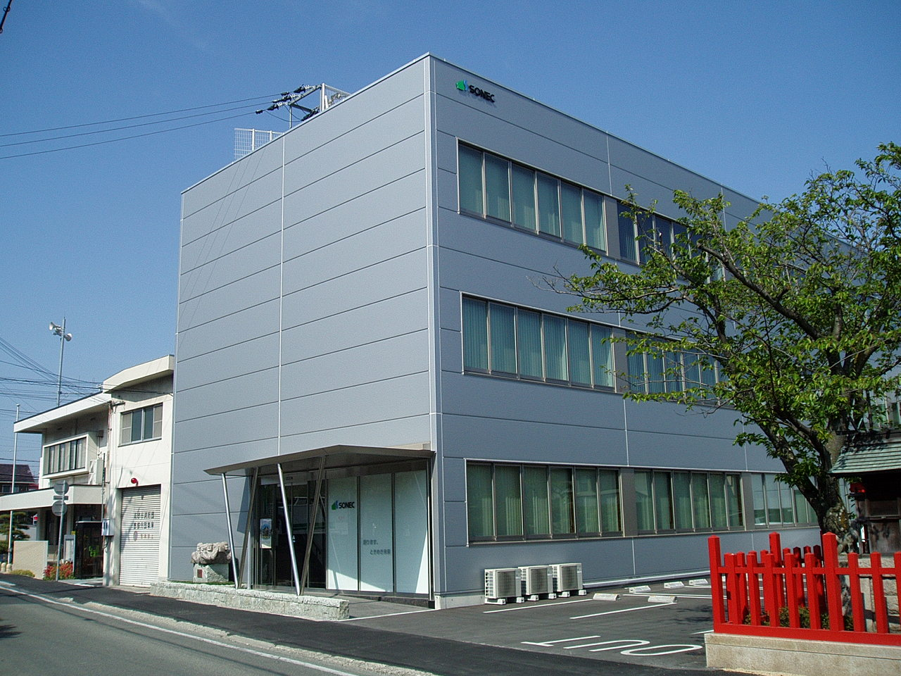 The headquarters office of SONEC CORPORATION (TYO:1768), a construction company located in Sone-cho, Takasago, Hyōgo, Japan.